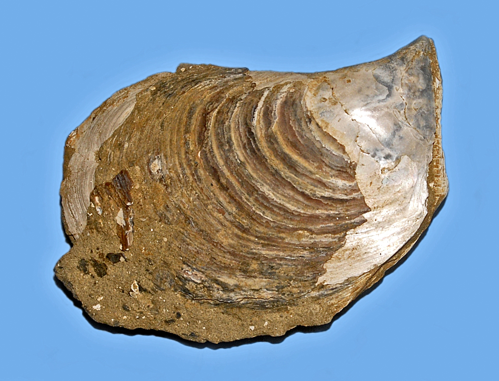 Fossil of Isognomon maxillatus from Pliocene of Italy, on display at the Museo Paleontologico Giulio Maini, Ovada